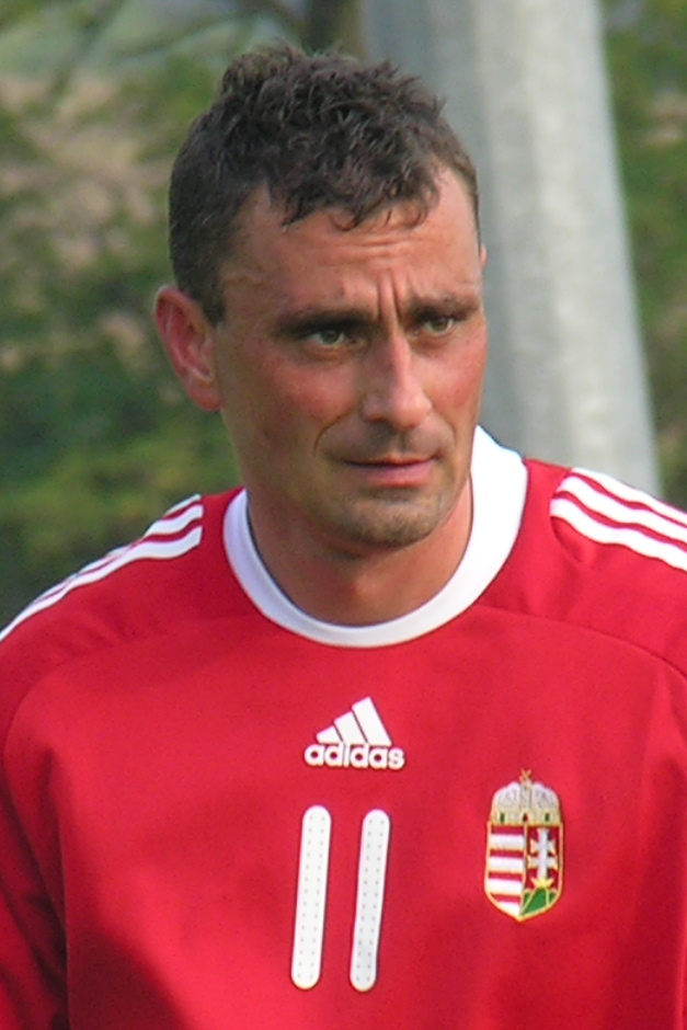 Gábor Egressy Hungarian international football player in Telki (Hungary) - Football Festival by MLSZ